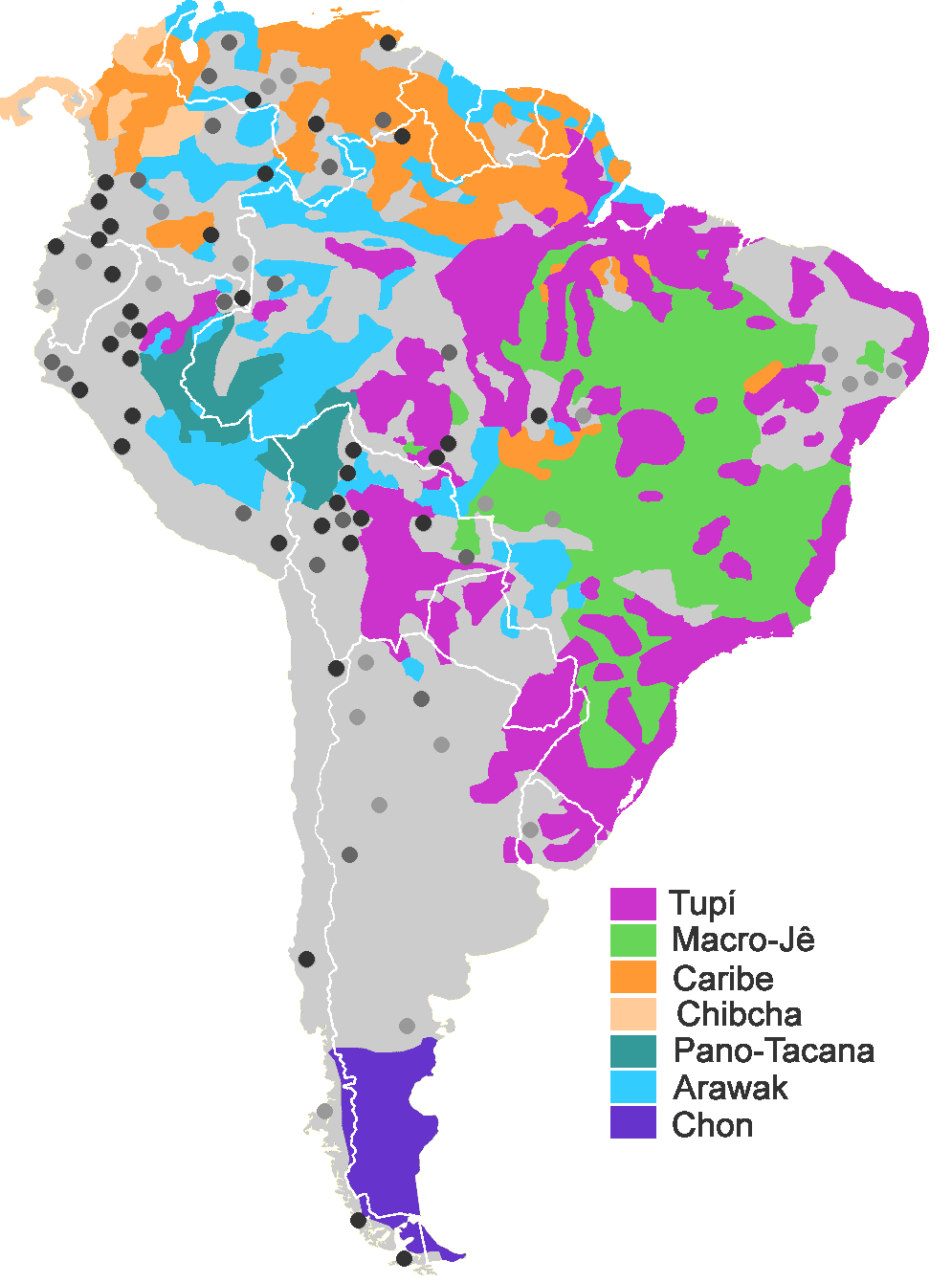 Extenisve linguistic families of South America (more than 5 languages), small familes (dark grey), isolates (black) and doubful/unclassified languages (clear grey). Color updated for better visibility.